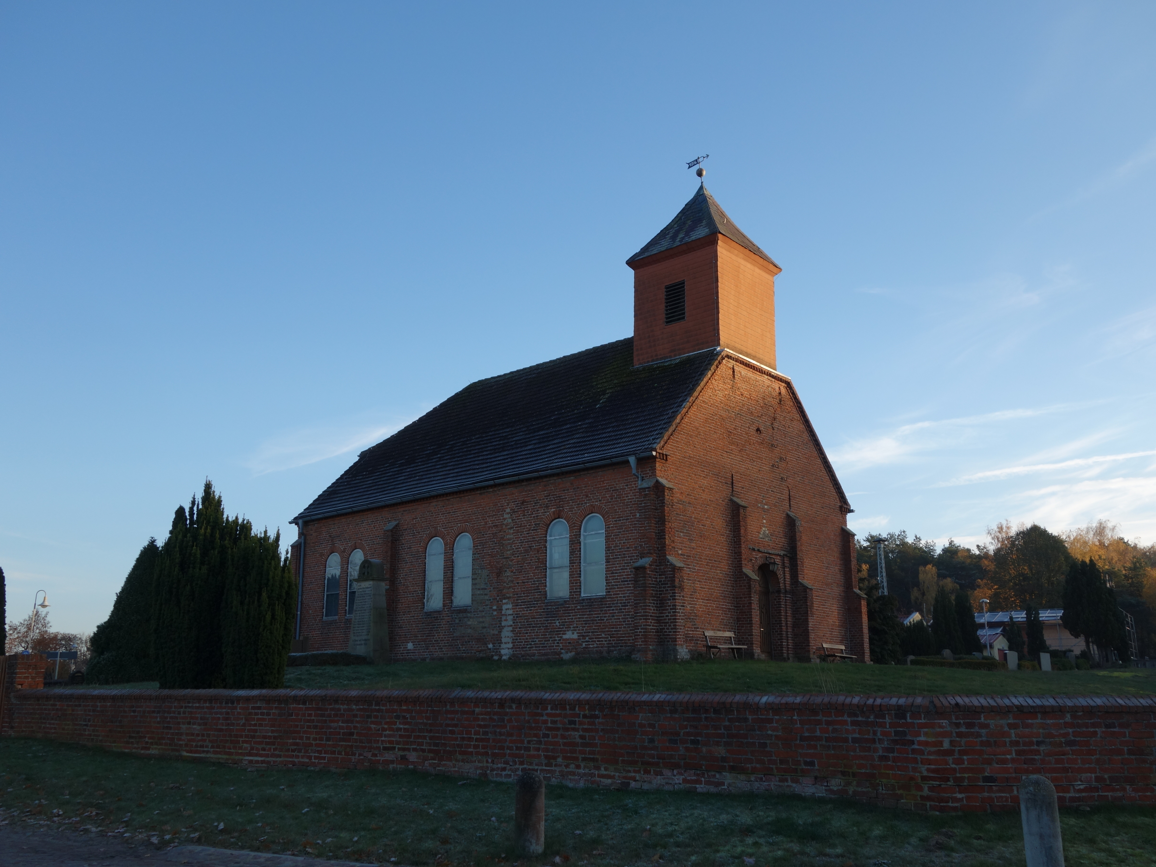 North-western view of church in Grütz, Rathenow municipality, Havelland district, Brandenburg state, Germany